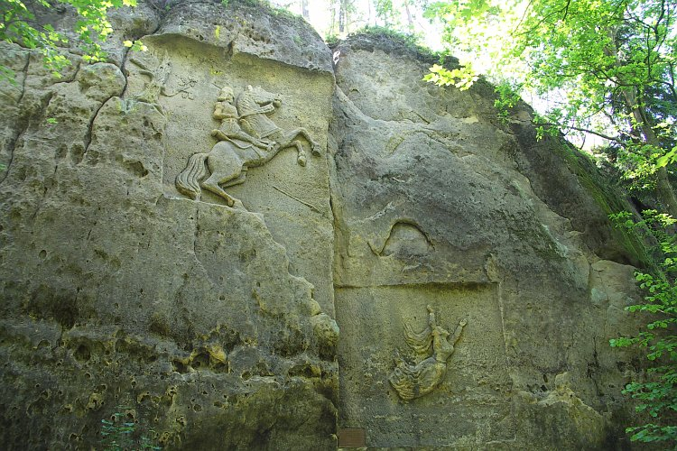 Skála smrti, Lusatian Mountains, Czech Republic